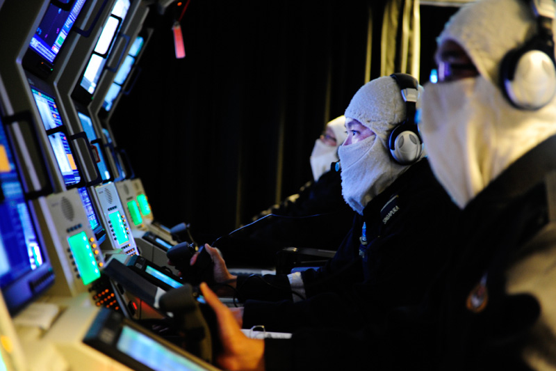 PACIFIC OCEAN (July 13, 2010) Weapons control specialists aboard the Republic of Singapore Navy Formidable-class multi-role frigate RSS Supreme (73) prepare to fire an Aster missile during Rim of the Pacific (RIMPAC) 2010. RIMPAC is a biennial, multinational exercise designed to strengthen regional partnerships and improve multinational interoperability. (Photo provided by Singapore Navy/Released)